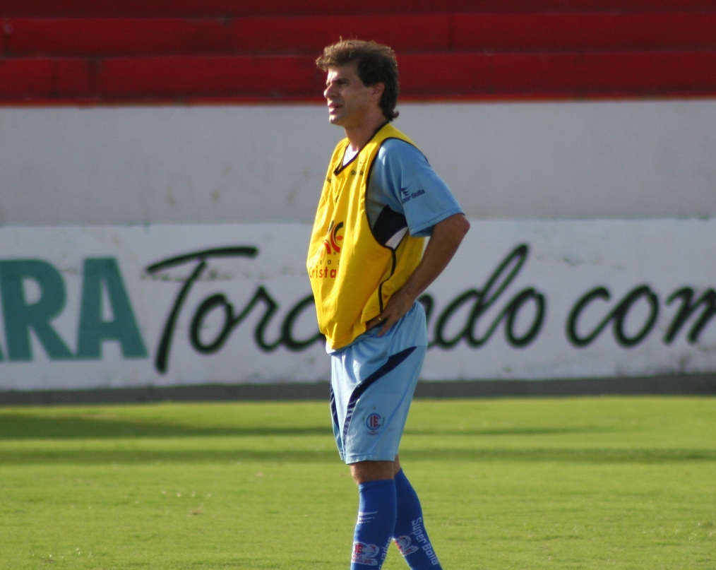 Túlio at Itumbiara's practice